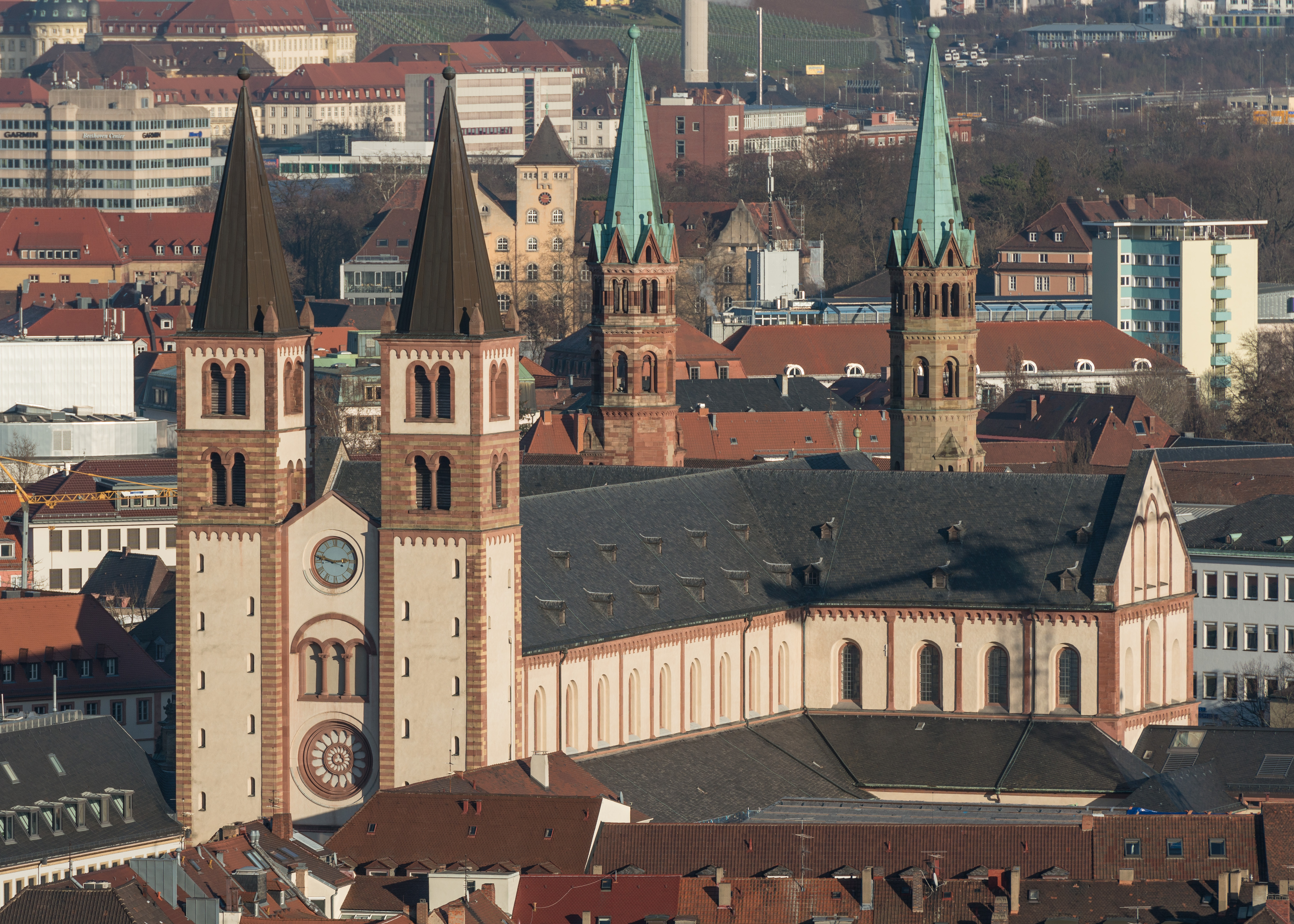 The cathedral of Würzburg, the Dom St. Kilian as seen from Festung Marienberg